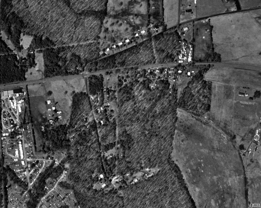 Future site of Fluvanna Correctional Center for Women in Fluvanna County, Virginia, 21 months before construction began in January 1996. The East/West road directly north of the site is U.S. Route 250.[1]